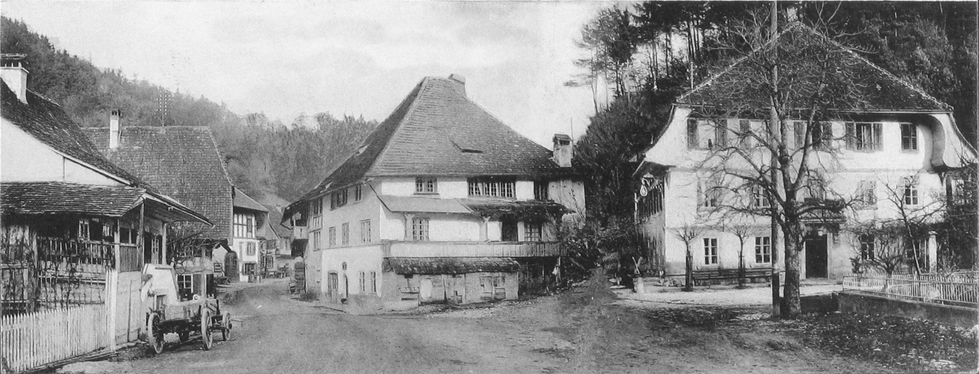 View of Gümmenen, before 1920. Visible on the right is the old inn "Kreuz", on the left is the former customs house. The buildings in the middle were demolished in the 1970s, when the Murtenstrasse was expanded.